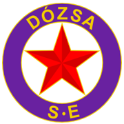 Logo of Hungarian club Újpest FC.